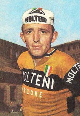 CAMPIONI DELLO SPORT PANINI 1970 1971 VAMDEMBOSSCHE CICLISMO